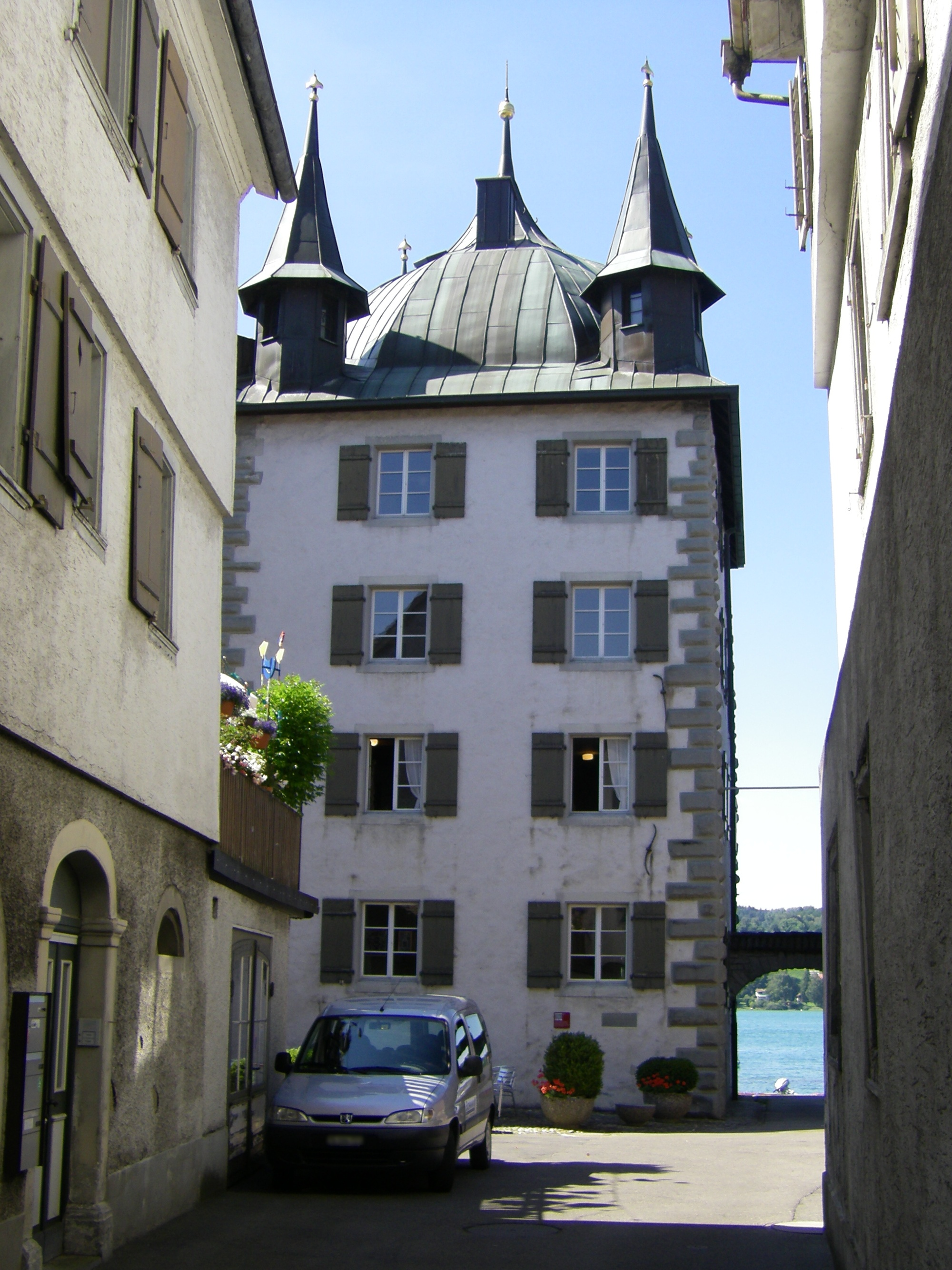 The "Turmhof" building in Steckborn (Switzerland) on the Untersee, a part of Lake Constance. Built c. 1320 by Diethelm of Castell, abbot of the Benedictine monastery on Reichenau Island.